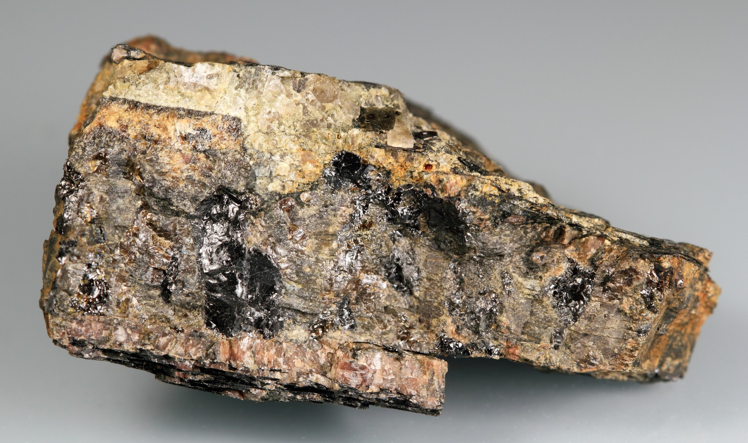 Black yttrialite-(Y) with brown lustrous formanite-(Y) and brown britholite-(Y) with dull lustre. Locality: Lövböle, Kemiö Island, Southwestern Finland Region, Finland